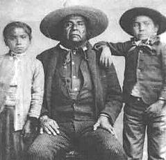 Apache chief Eskiminzin